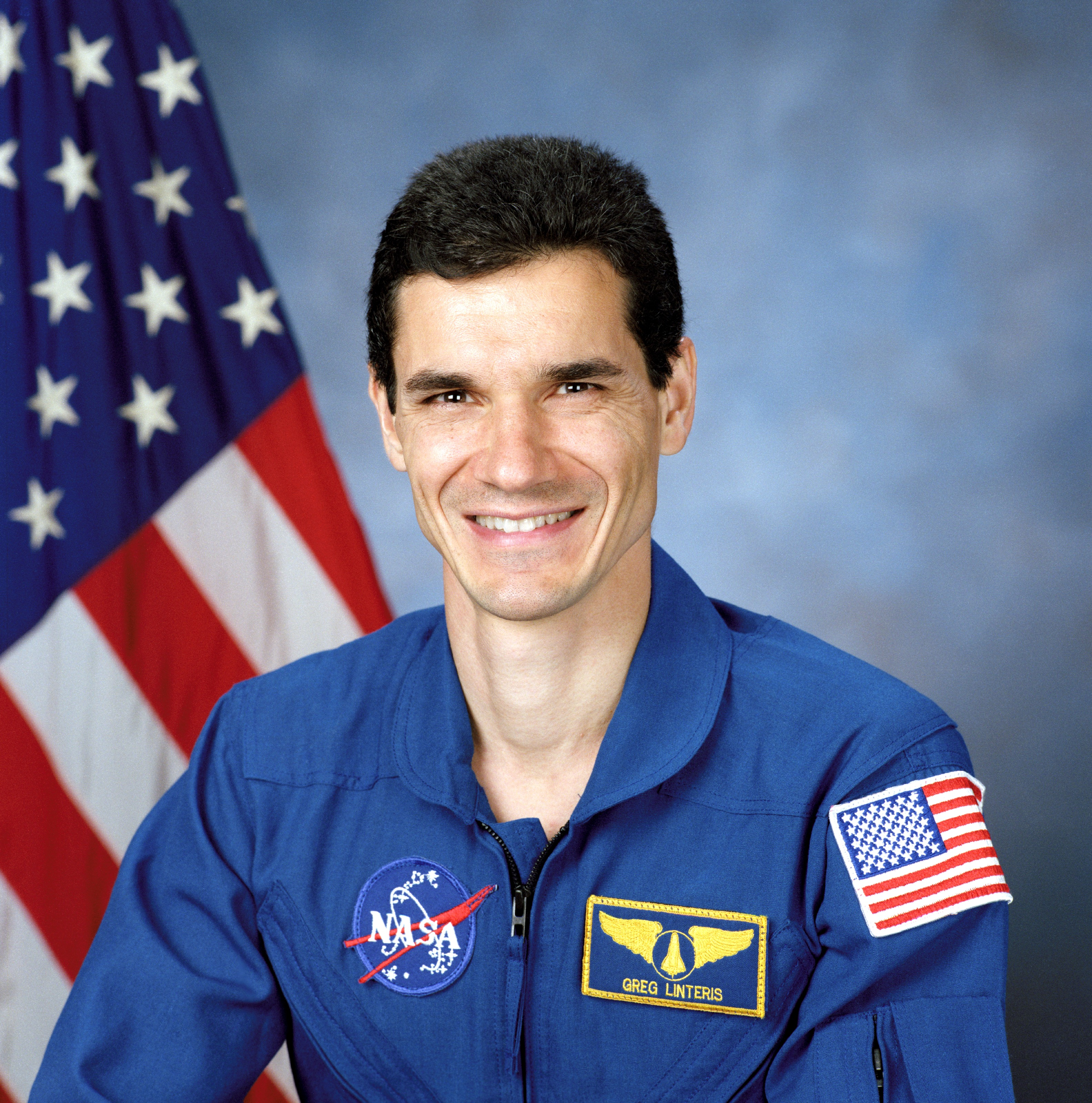 portrait astronaut Gregory Linteris